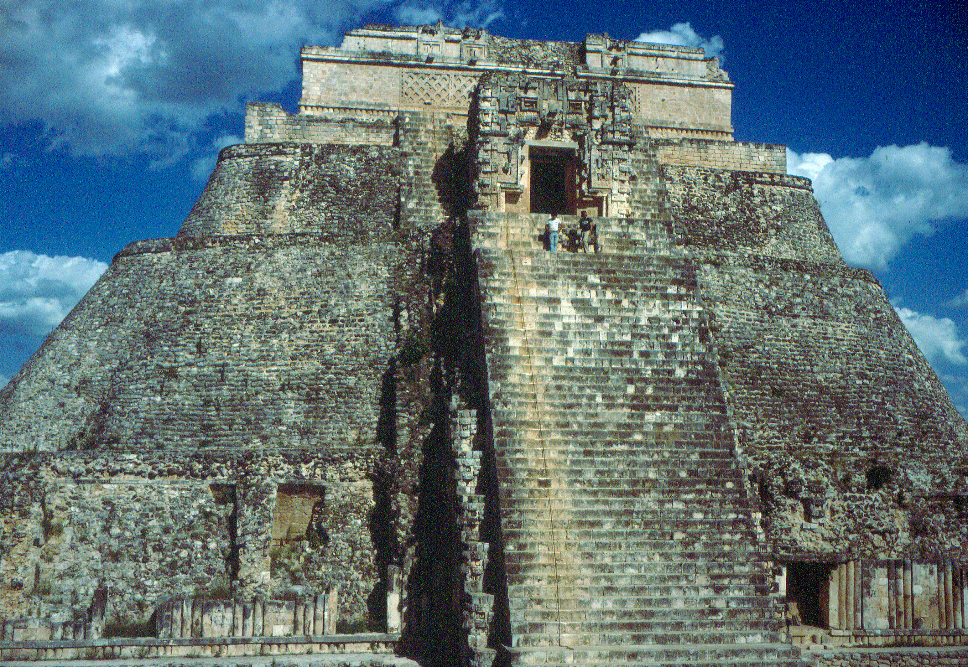 Uxmal, Yucatan, Mexico: Temple of the Magician, West side.